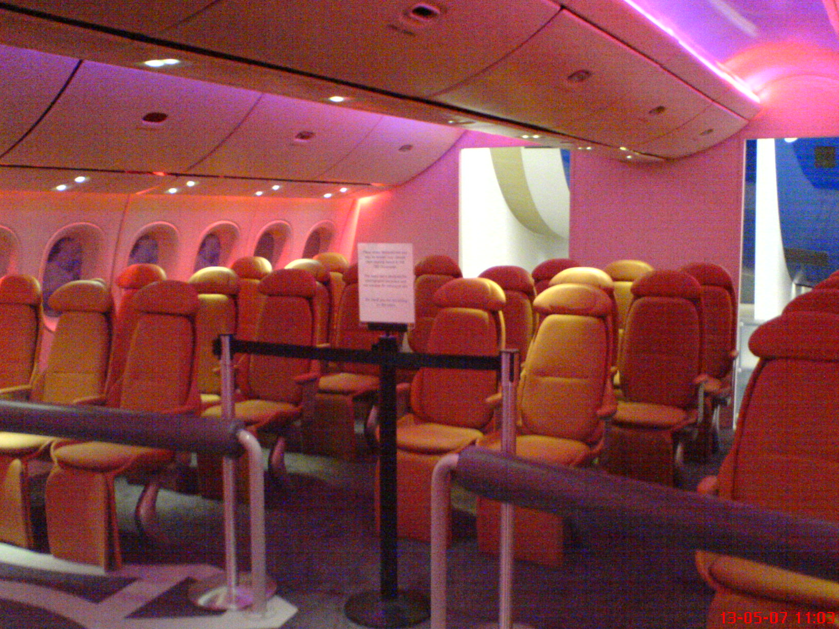 787 cabin mockup. It felt very good.